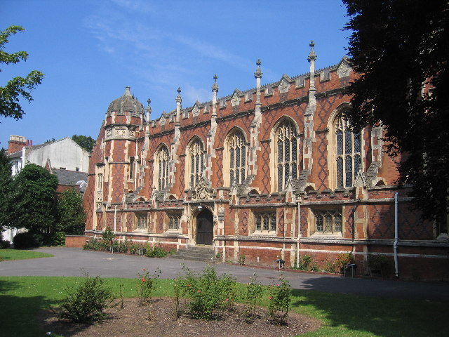 Binswood Hall - Leamington College for Boys. This tudor style building was built in 1847. Amongst its successful pupils were Sir Frank Whittle, inventor of the Jet engine who was a scholar here between 1918 and 1923. The school subsequently became part of the North Leamington Community School and the hall is used as part of the Sixth Form Centre